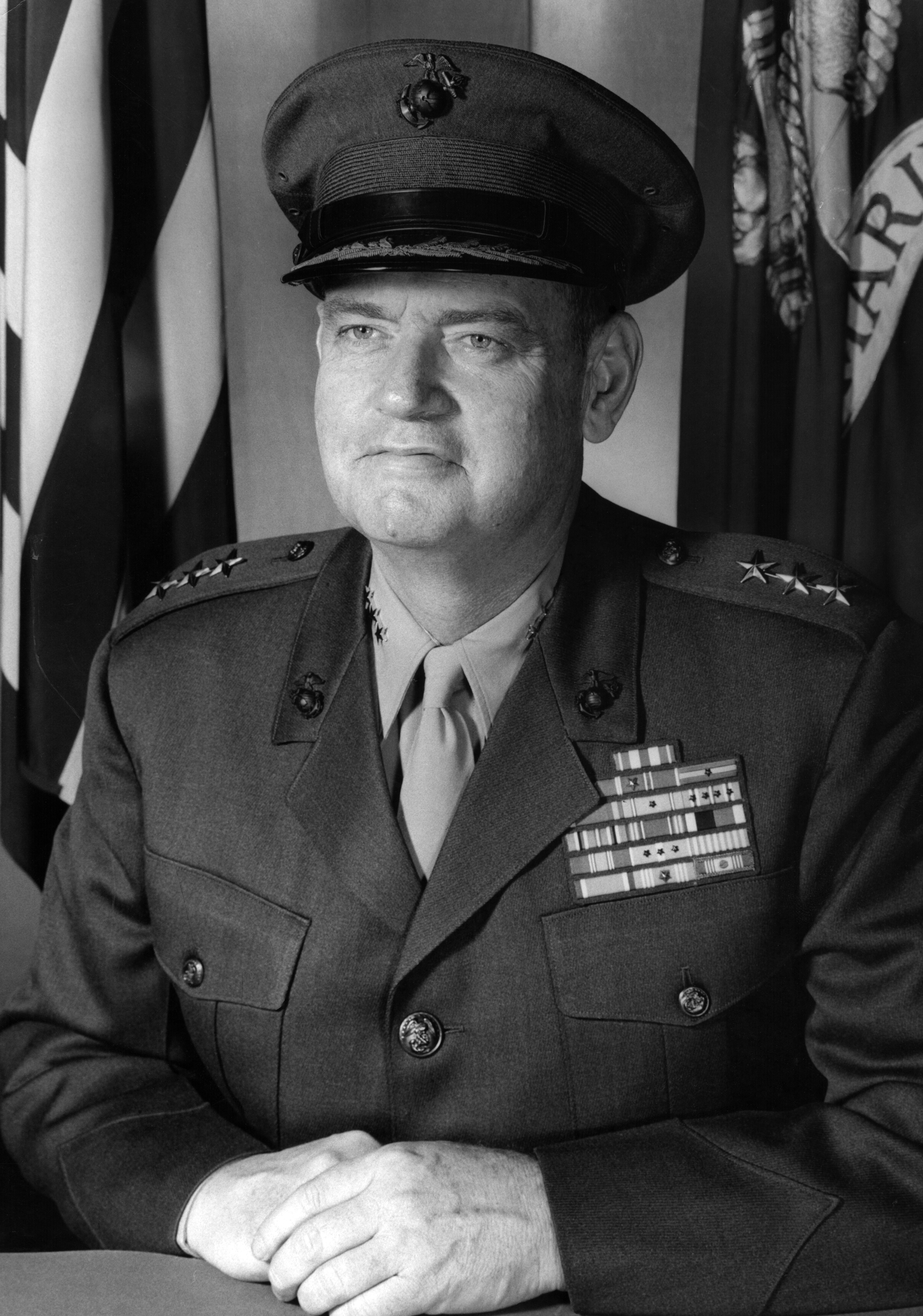 Henry William Buse Jr. (April 12, 1912 - October 18, 1988) was an highly decorated officer of the United States Marine Corps, who reached the rank of Lieutenant General. He is most noted as Chief of Staff, Headquarters Marine Corps and later as Commanding General of the Fleet Marine Force Pacific. Following his retirement from the Marine Corps, Buse served as Assistant to three former presidents of the U.S. Olympic Committee.